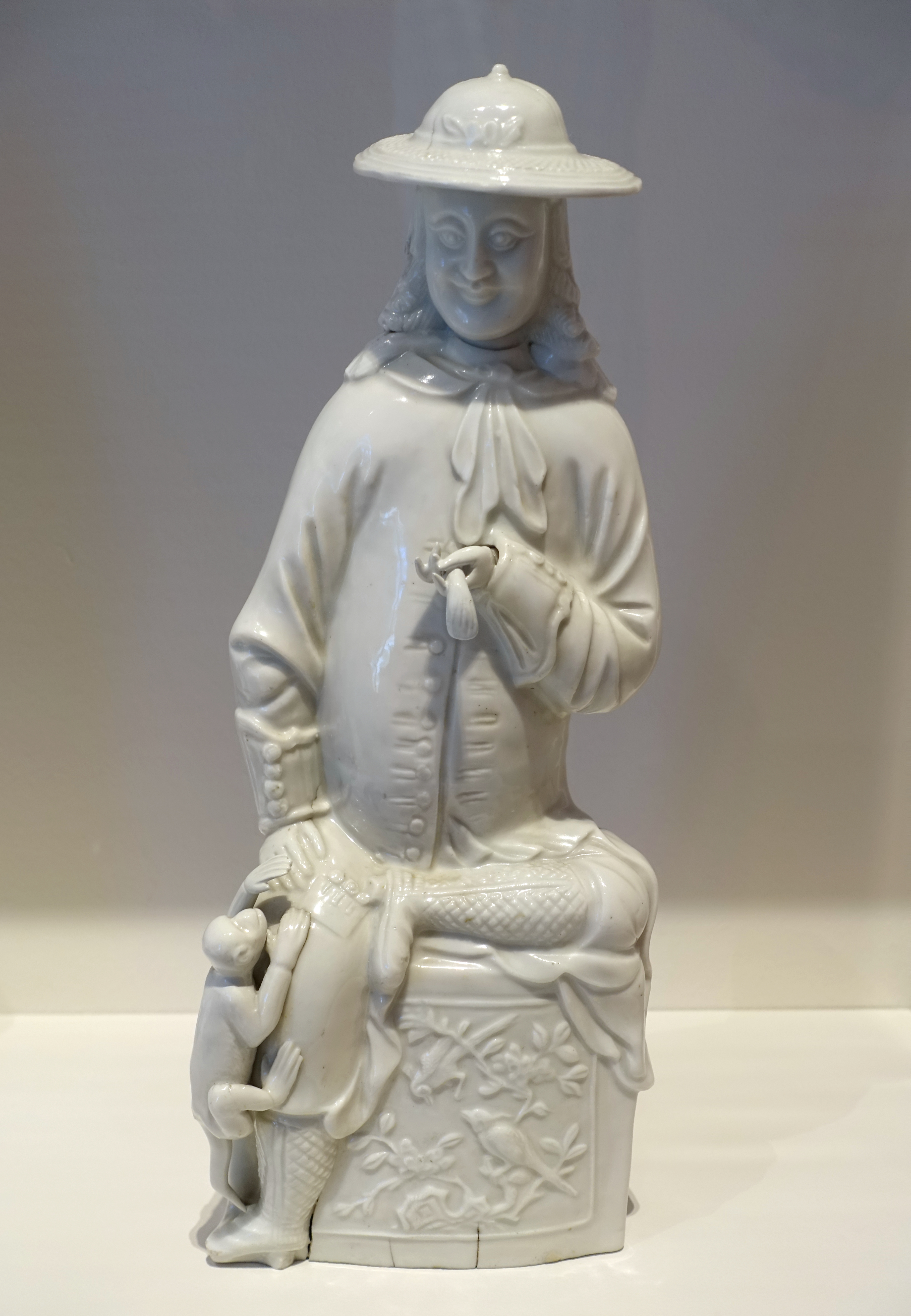 Exhibit in the John and Mable Ringling Museum of Art - Sarasota, Florida, USA.